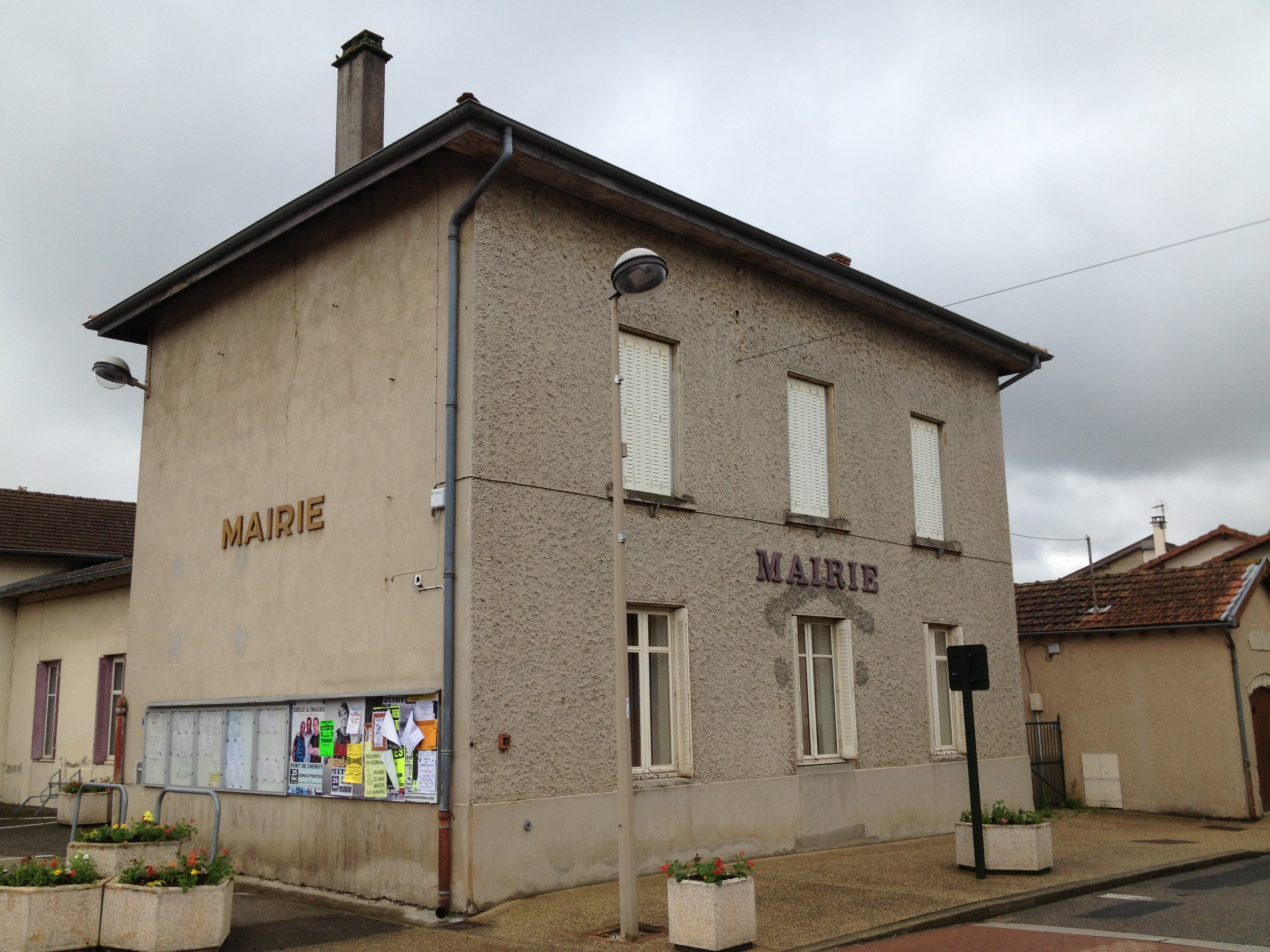 Town hall of Saint-Maurice de Gourdans.